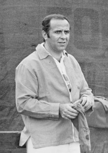 The Italian writer Gustavo Pallicca in Siena, Italy.